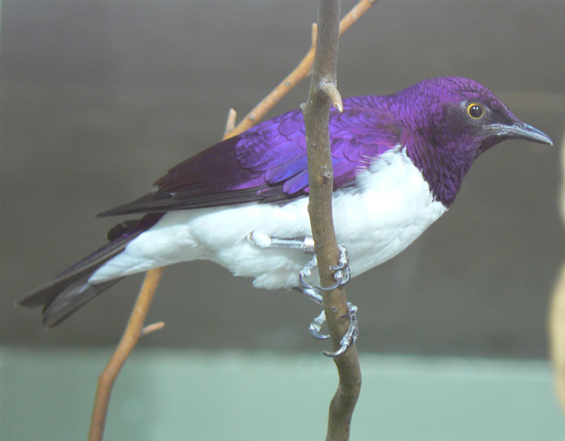 Violet-backed Starling - Cinnyricinclus leucogaster) Taken in London Zoo